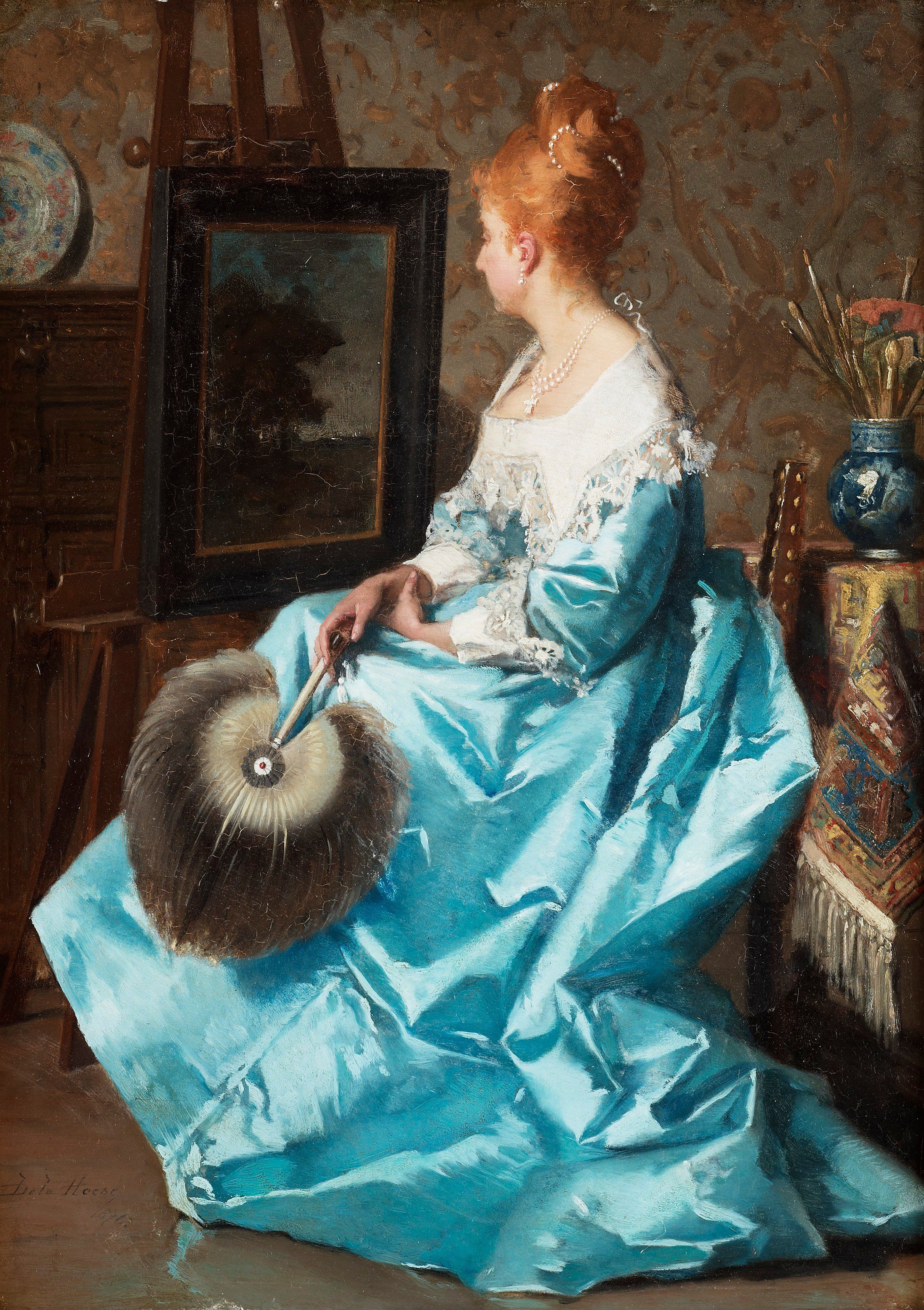 Frau im blauen Kleid vor einer Staffelei